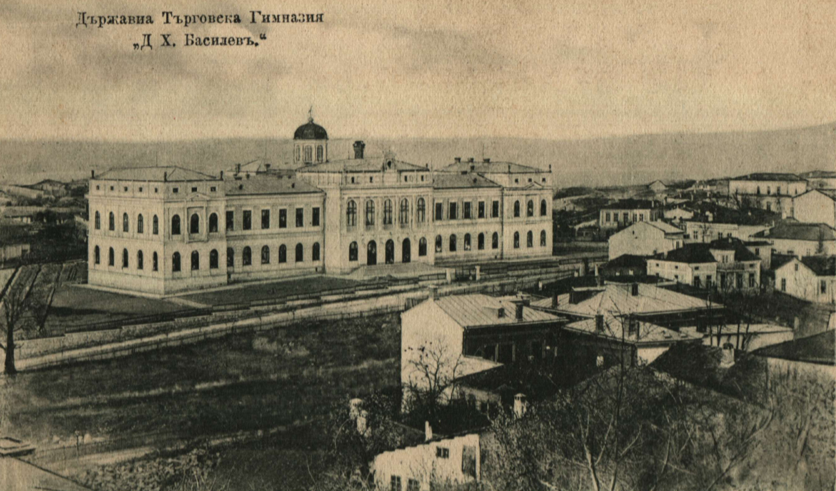 Svishtov, Bulgaria